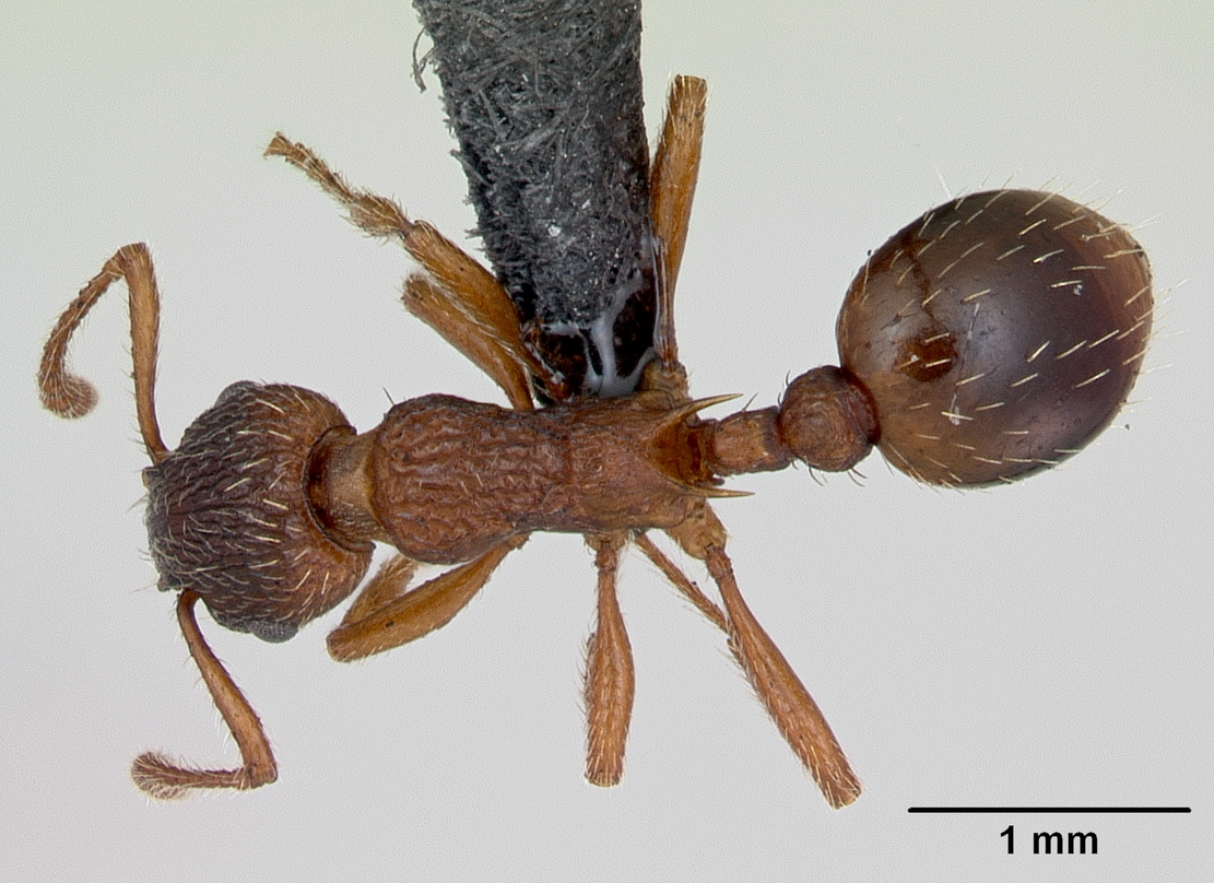 Dorsal view of ant Myrmica rugulosa specimen casent0172742.